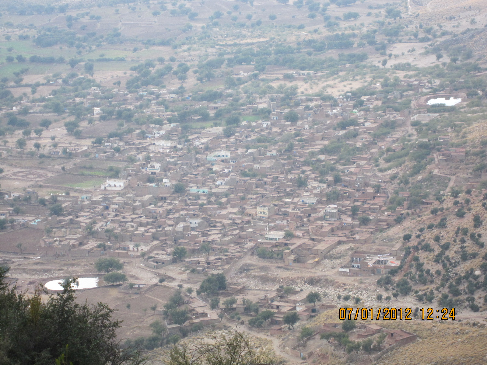 Captured The Hill